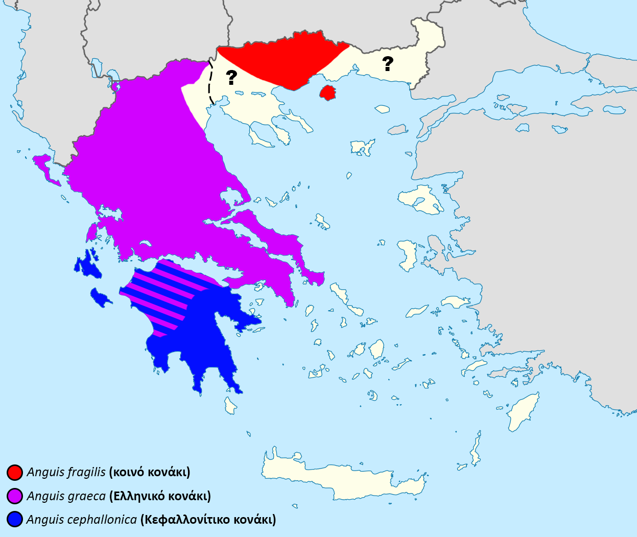 Anguis distribution Greece